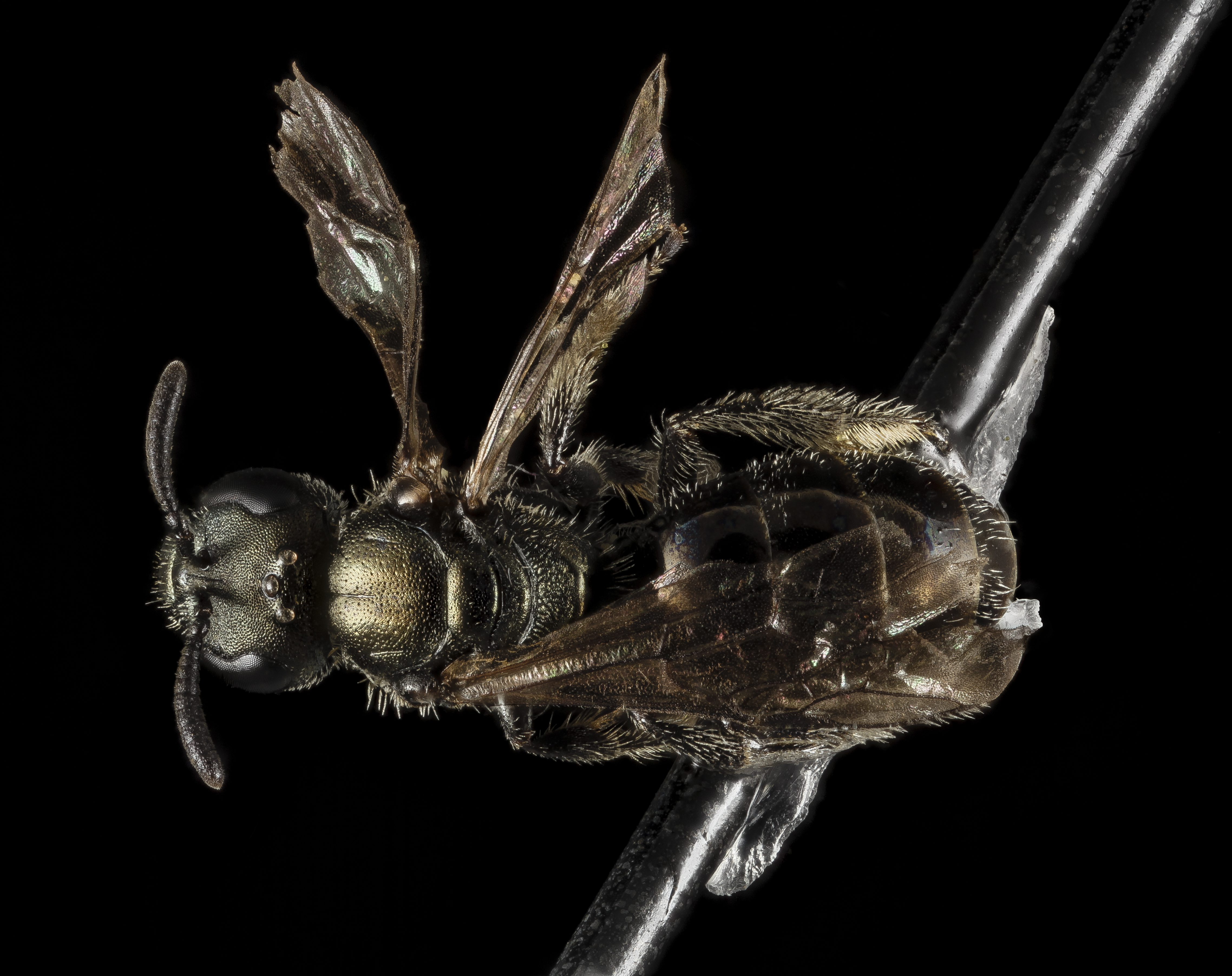 One of approximately 1 billions (actually it is nearly 2000) species of Lasioglossum in the world. This one is from Grand Teton National Park in Wyoming. Interestingly, most of these species appear to be generalists so one wonders how they partition their tiny worlds. 10:54, 26 April 2015 (UTC)10:54, 26 April 2015 (UTC) 0 10:54, 26 April 2015 (UTC)10:54, 26 April 2015 (UTC) All photographs are public domain, feel free to download and use as you wish. Photography Information: Canon Mark II 5D, Zerene Stacker, Stackshot Sled, 65mm Canon MP-E 1-5X macro lens, Twin Macro Flash in Styrofoam Cooler, F5.0, ISO 100, Shutter Speed 200 Beauty is truth, truth beauty - that is all Ye know on earth and all ye need to know " Ode on a Grecian Urn" John Keats You can also follow us on Instagram account USGSBIML Want some Useful Links to the Techniques We Use? Well now here you go Citizen: Basic USGSBIML set up: USGSBIML Photoshopping Technique: Note that we now have added using the burn tool at 50% opacity set to shadows to clean up the halos that bleed into the black background from "hot" color sections of the picture. PDF of Basic USGSBIML Photography Set Up: ftp://ftpext.usgs.gov/pub/er/md/laurel/Droege/How%20to%20Take%20MacroPhotographs%20of%20Insects%20BIML%20Lab2.pdf Google Hangout Demonstration of Techniques: or Excellent Technical Form on Stacking: Contact information: Sam Droege 301 497 5840